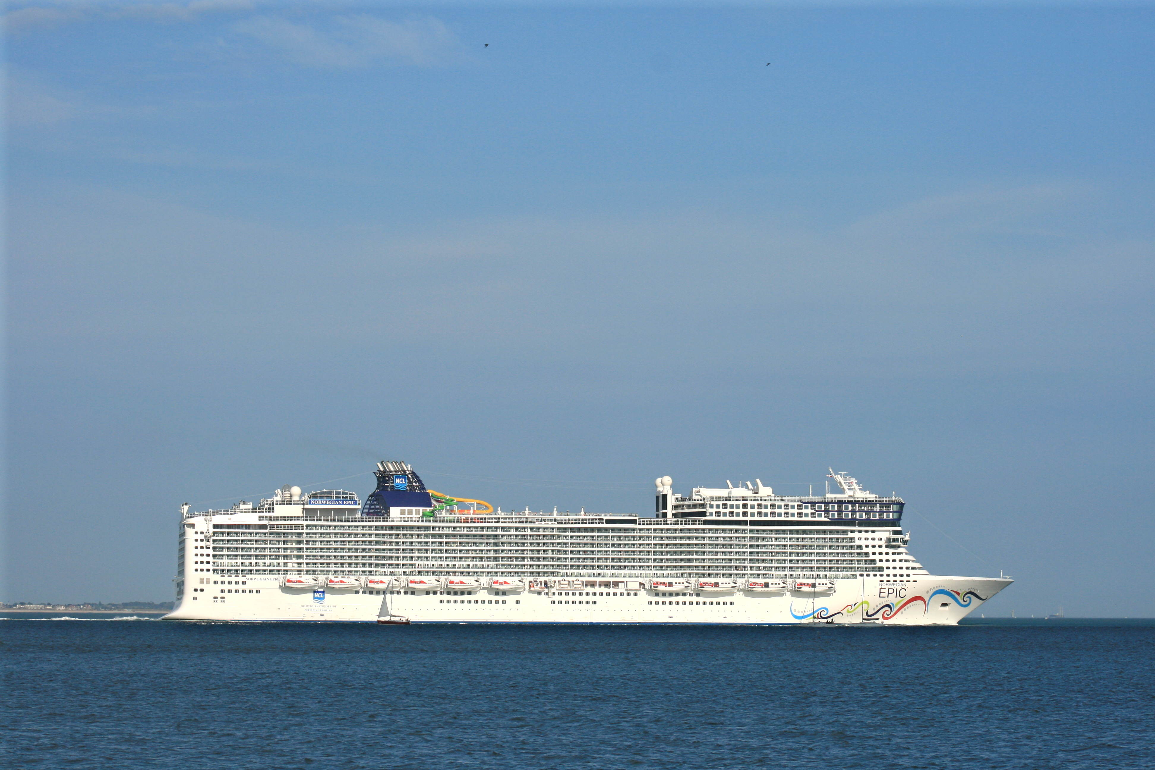 Norwegian Epic, a 153,000 gross tonnes cruise ship of Norwegian Cruise Lines passing Calshot Spit light buoy in the Solent, outward bound from Southampton on its maiden voyage, bound for New York on 24 June 2010. Image uploaded by me User:George.Hutchinson from a photograph taken by and supplied by Brian Burnell. The photograph should be attributed to Brian Burnell @ in this format. Wikipedia editors are reminded that the copyright remains with the photographer, and that the terms of the Creative Commons Attribution-ShareAlike 3.0 Unported Licence that allow editors to reuse this image apply to Wikipedia editors also, as they do to other reusers of this image. Breaches of the licence terms are not only unlawful, but are also antisocial, in that breaches discourage photographers from making their images freely available to everyone without payment. Non-Wikipedia users are requested to advise Brian Burnell of its use other than on Wikipedia.